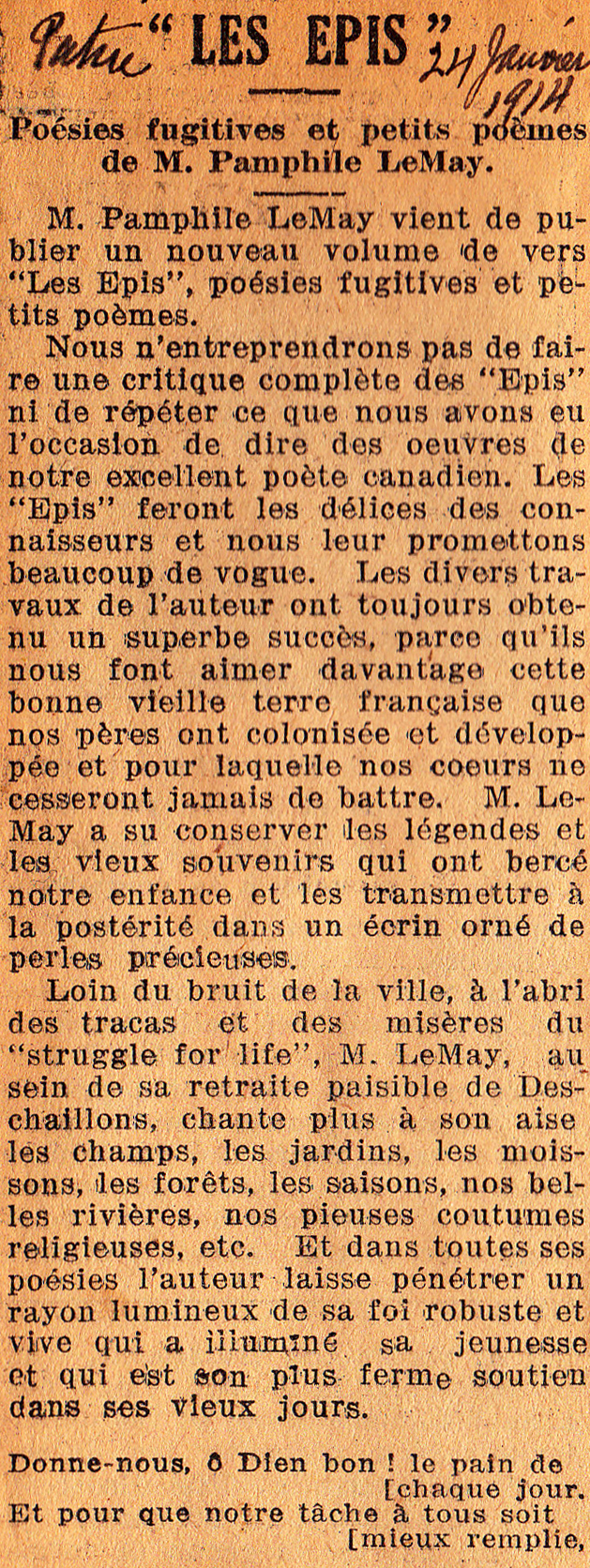 Review of Pamphile Le May's "Les Épis" in newspaper La Patrie. Glued in a book given by Le May to his friend Georges Bellerive.